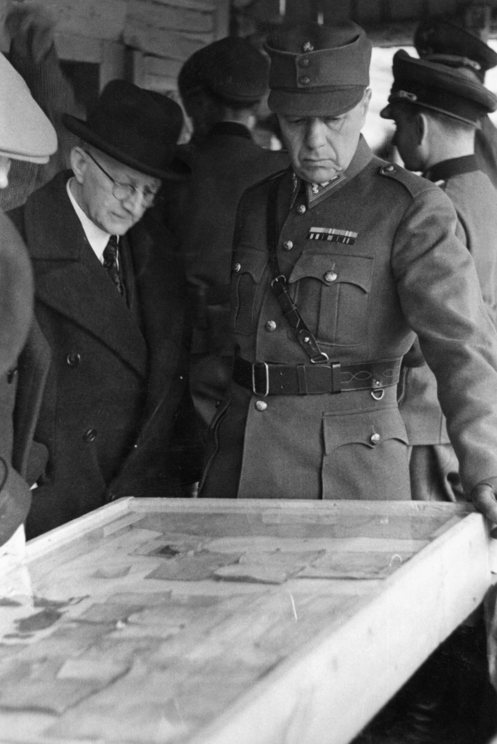 The Katyn Massacre, 1940 Members of the International Medical Commission - Dr François Naville, Professor of Forensic Medicine at the University of Geneva, and Dr Arno Saxén, Professor of Pathological Anatomy at the University of Helsinki - watching a display of personal belongings found on the bodies of murdered officers.